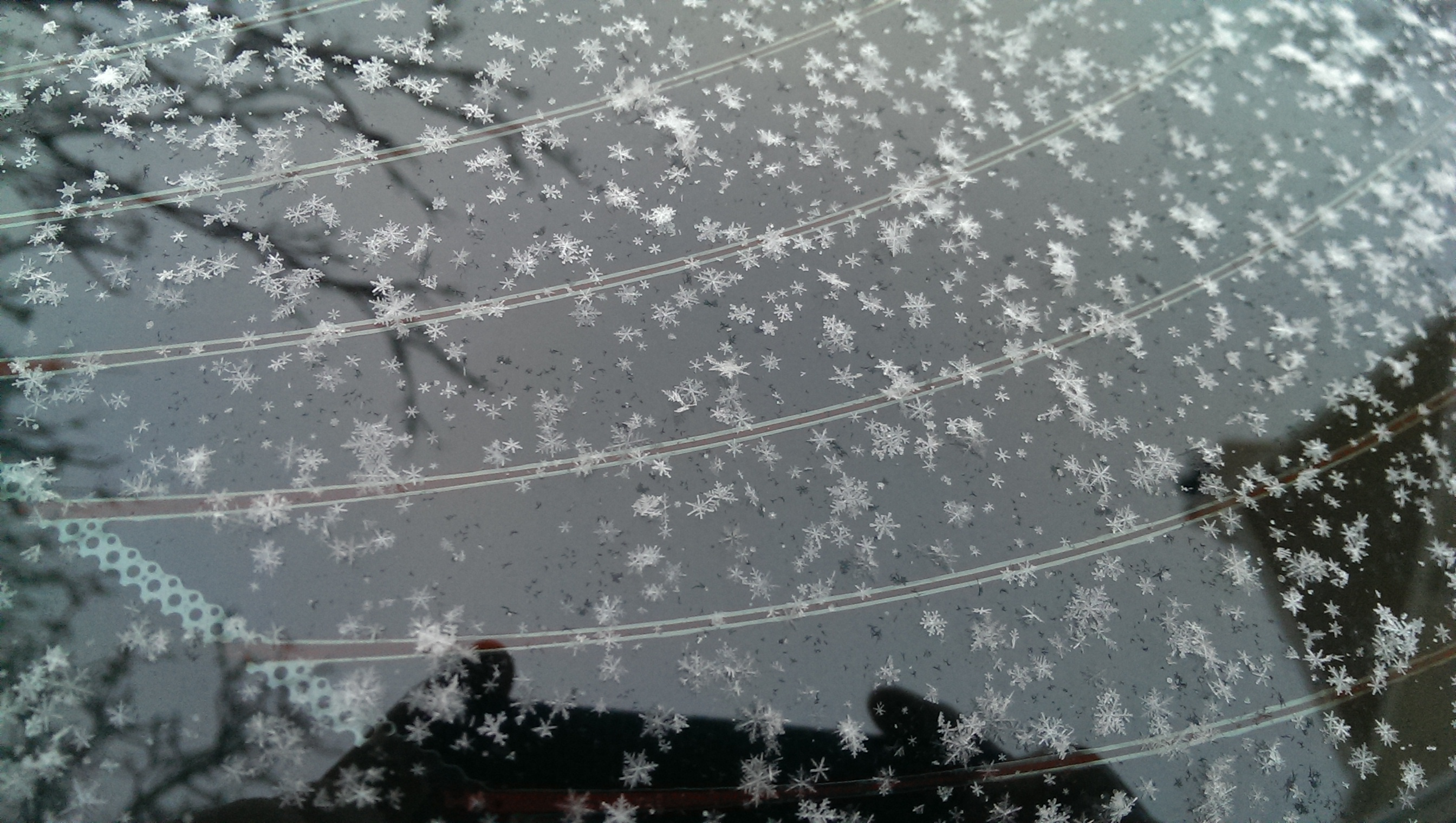 A layer of snowflakes that fell on the rear window of a car.